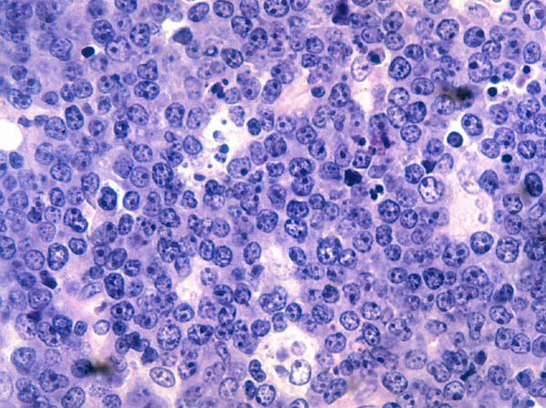 Title: Pathology: Histology slide Burkitt's lymphoma Description: Malignant B-cell lymphocytes seen in Burkitt's lymphoma, stained with hematoxylin and eosin (H&E) stain Subjects (names): Topics/Categories: Pathology -- Histology Type: Color Source: National Cancer Institute (NCI) Author: Louis M. Staudt Date Created: Unknown Date Entered: 6/7/2006 Access: Public